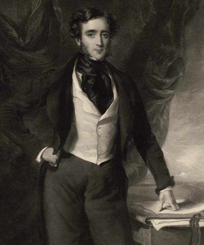 A portrait from the Welsh Portrait Collection at the National Library of Wales. Depicted person: Sir Richard Williams-Bulkeley, 10th Baronet – Welsh Liberal politician